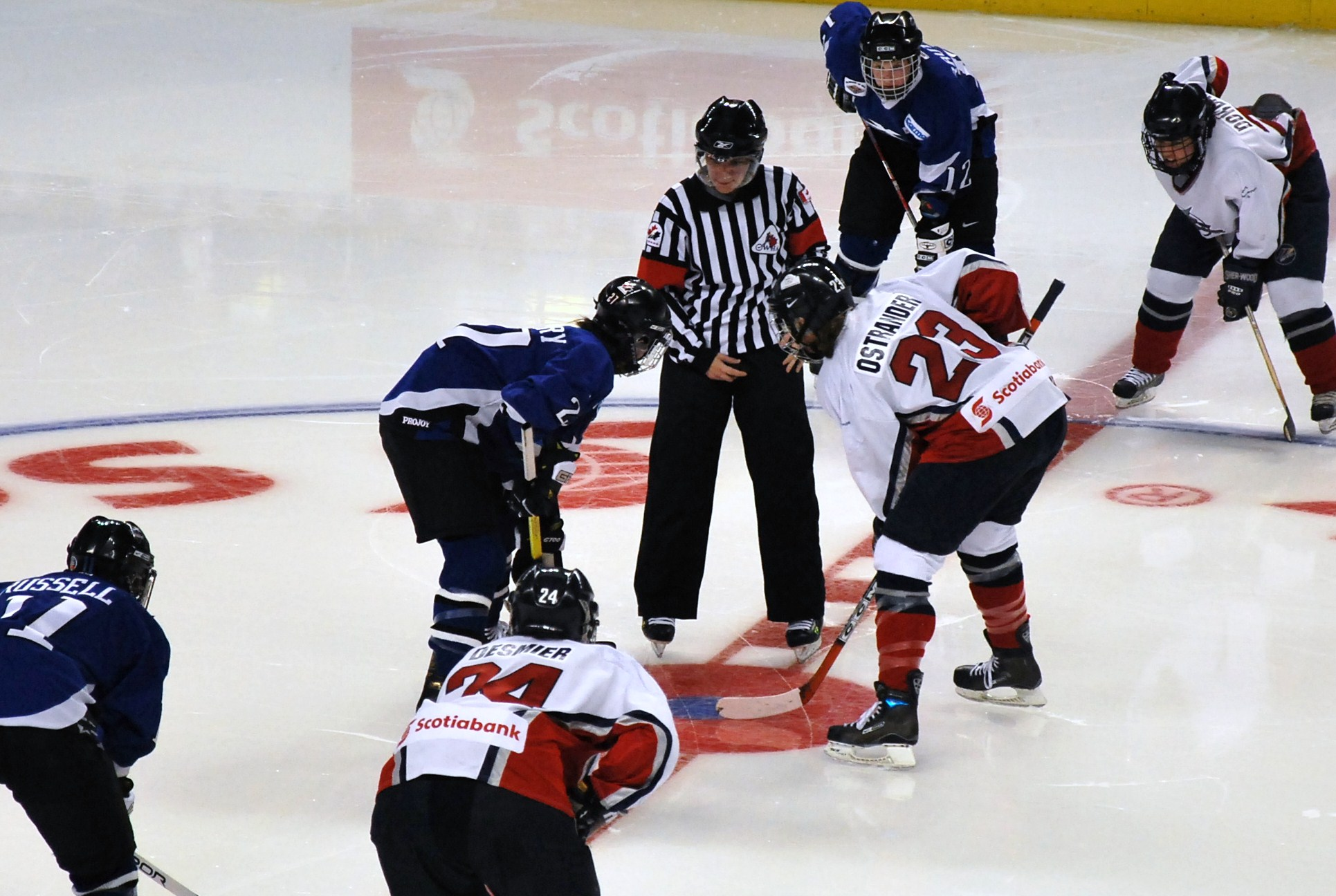 Brampton Thunder vs. Calgary Oval X-Treme; 2009-03-19